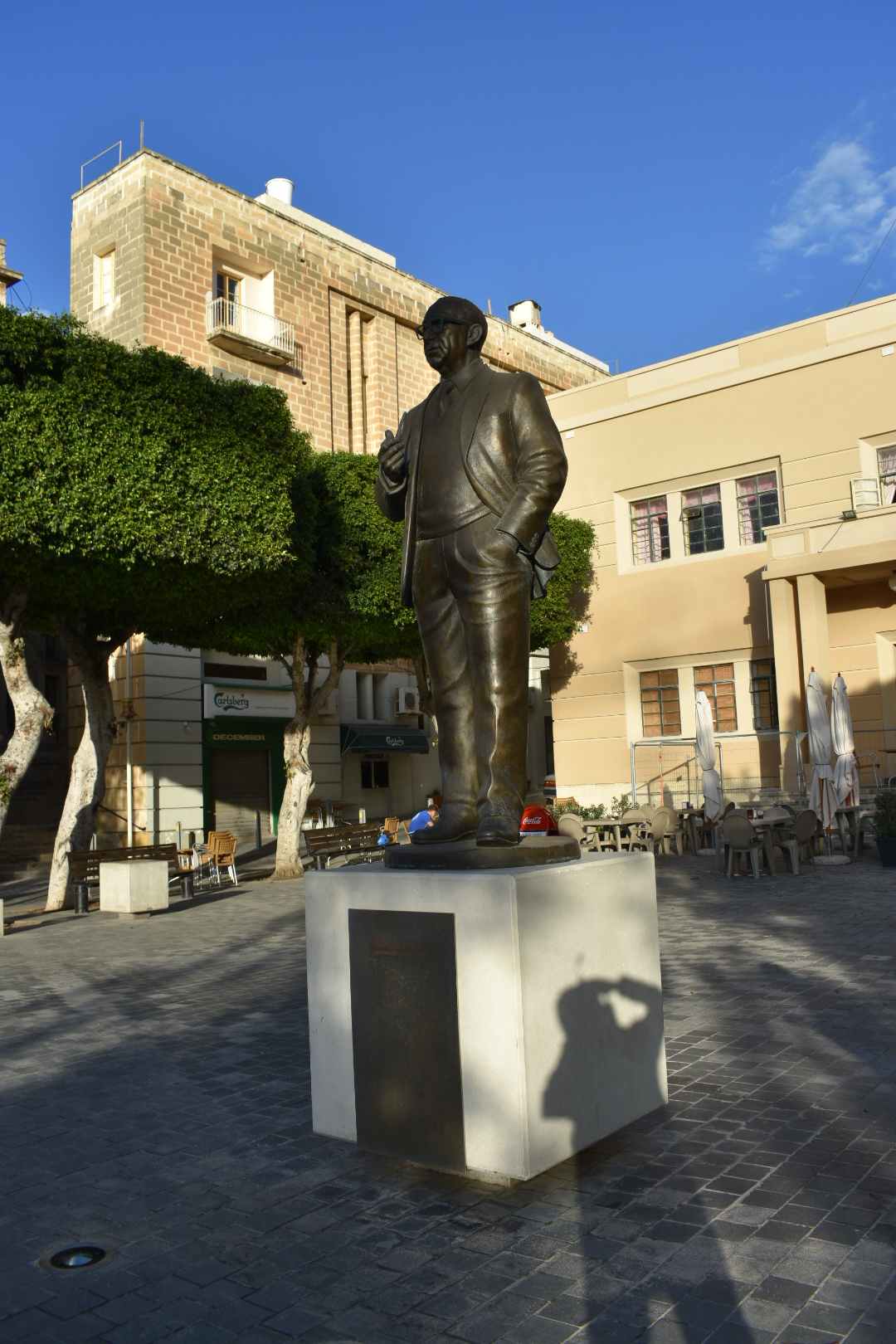 Dom Mintoff Monument, Cospicua